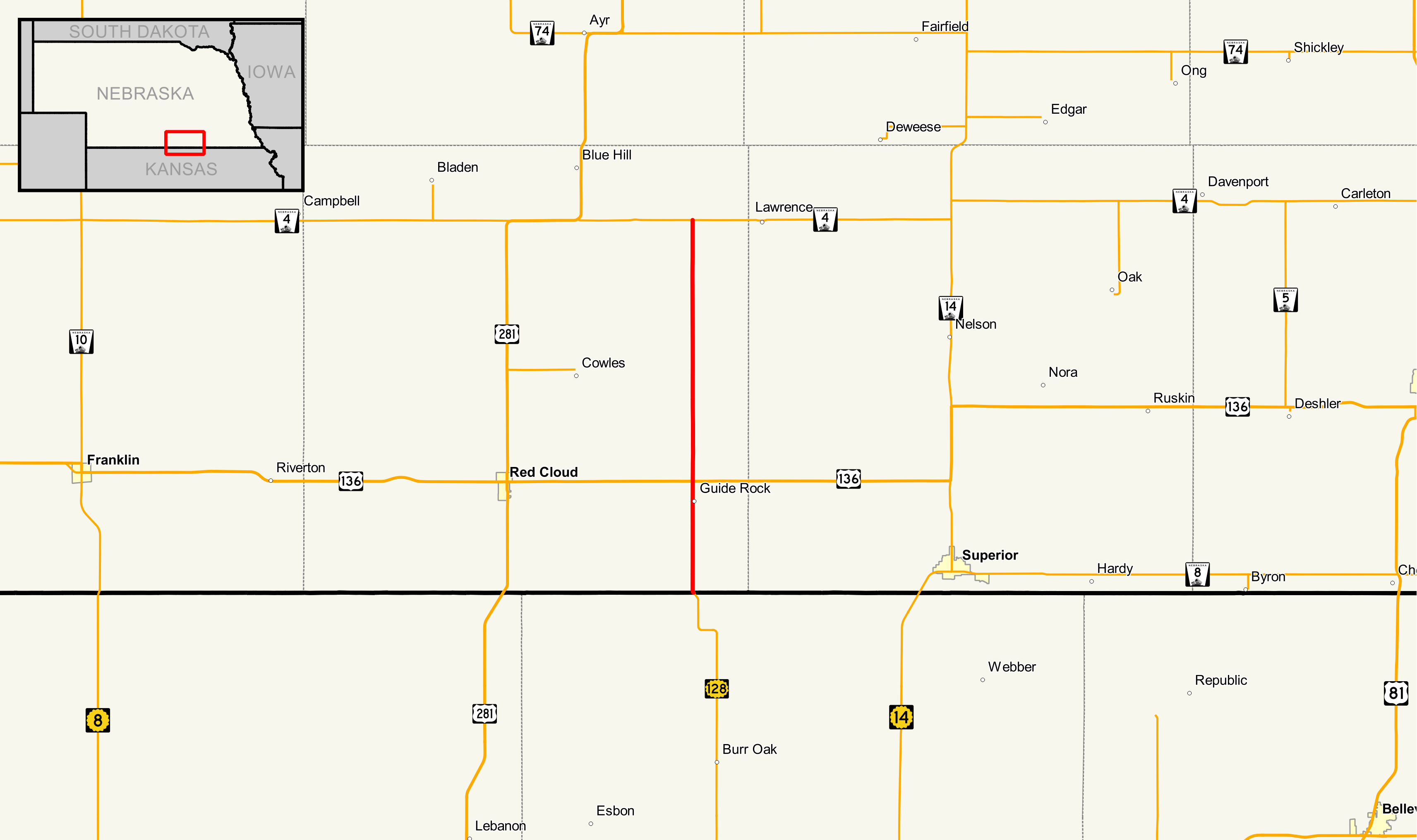 Map of Nebraska Highway 78 Data Sources: Nebraska Highways - - Dec 2016 Nebraska County Boundaries - - Dec 2016 Nebraska City Boundaries - - Dec 2016 This PNG graphic was created with QGIS